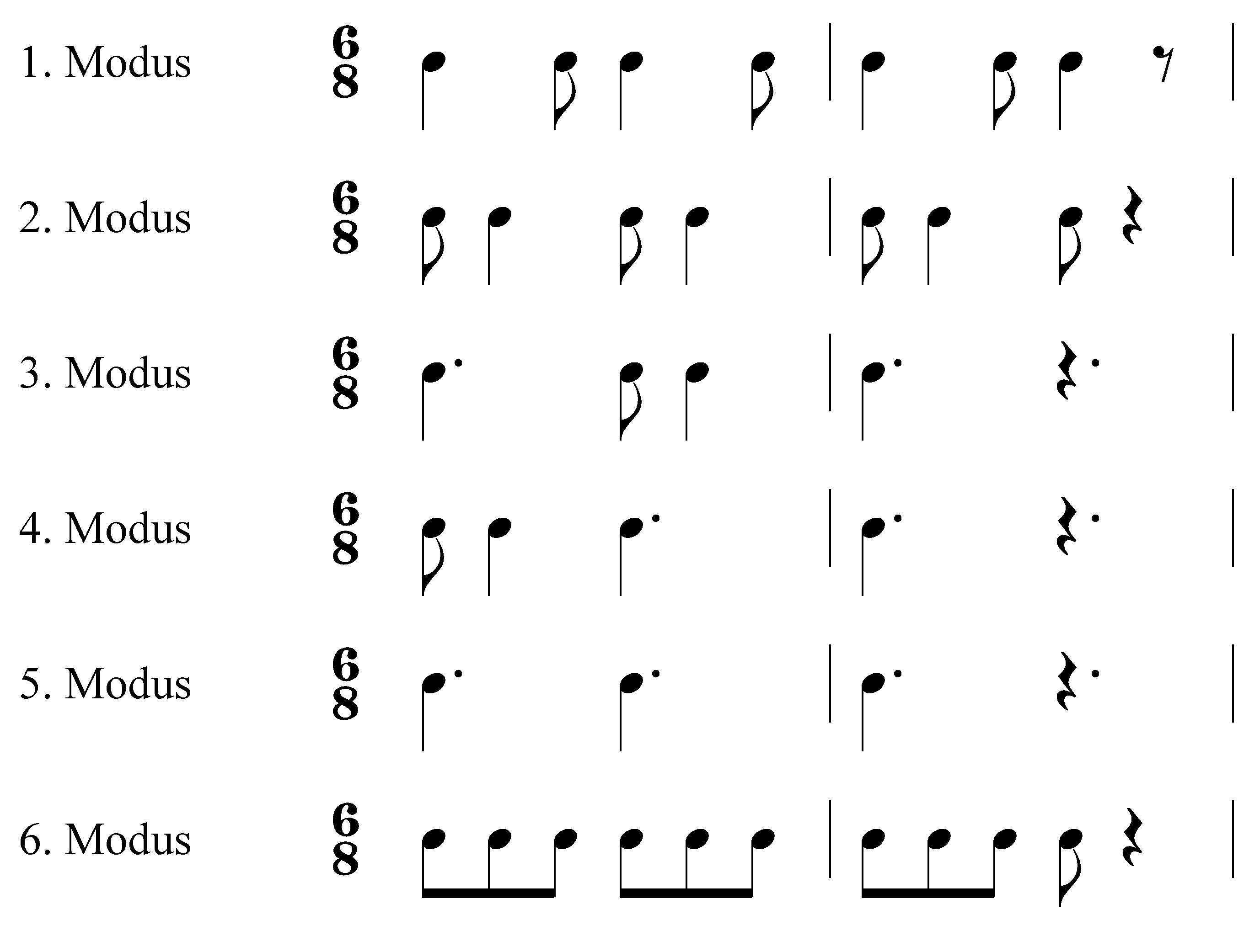 Die Rhythmen der sechs Modi der Modalnotation (Musiknotation, 13. Jahrhundert) - The rhythms of the six modes of modal notation (music notation, 13th century)